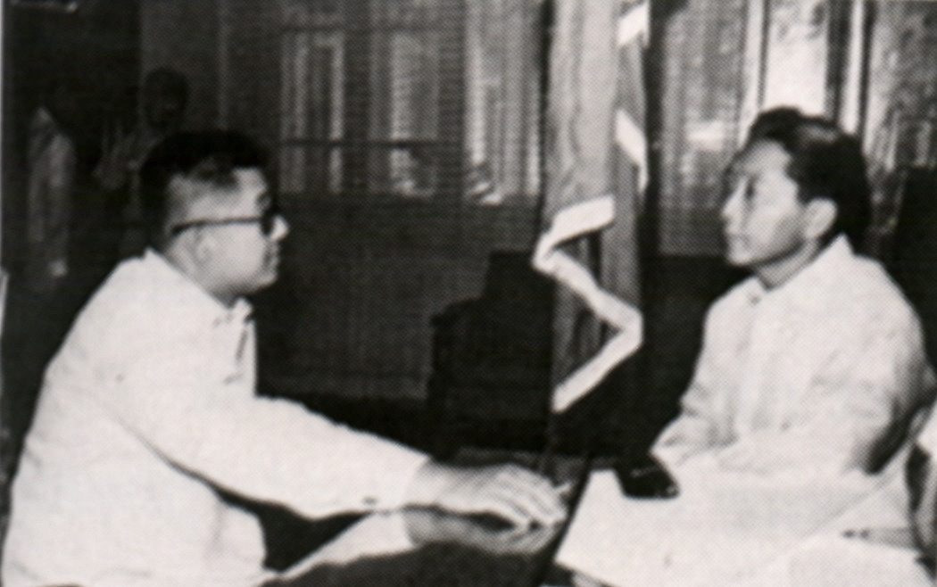 Philippine President Ferdinand Marcos meets Senator Ninoy Aquino.